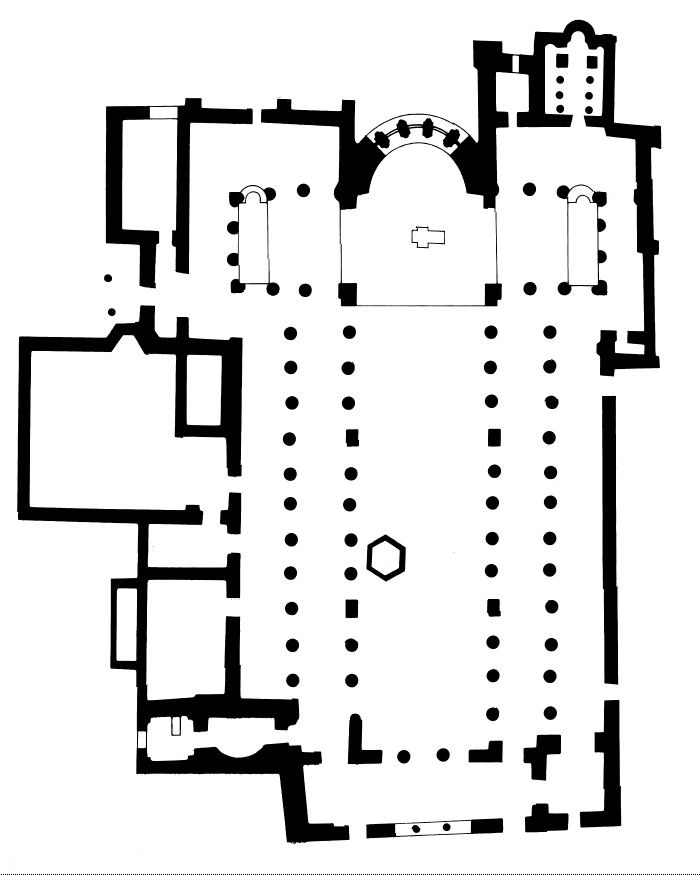 plan of the Church of Saint Demetrius